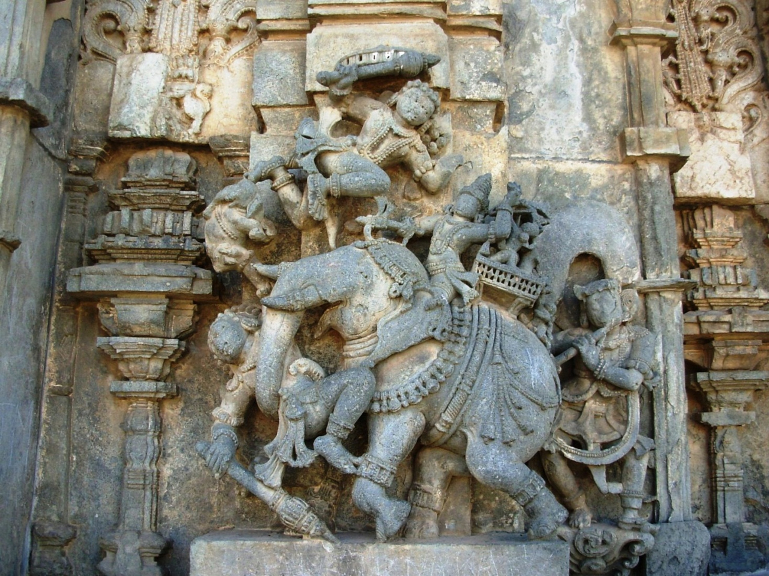 Bhagadatta, seated on Supratika, fighting with Bhima in the Kurukshetra War – stone carvings in Belur-India